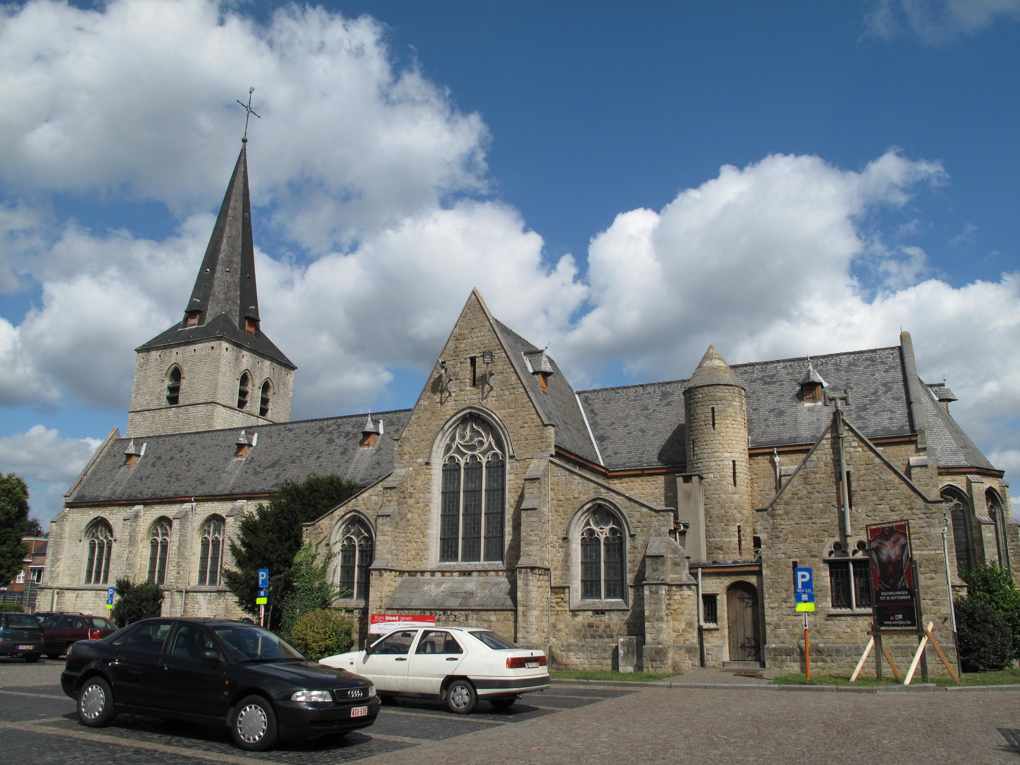 Nijlen, church